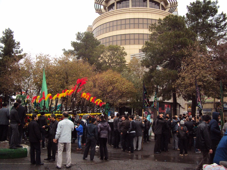 عزاداری روز عاشورای حسینی در قم